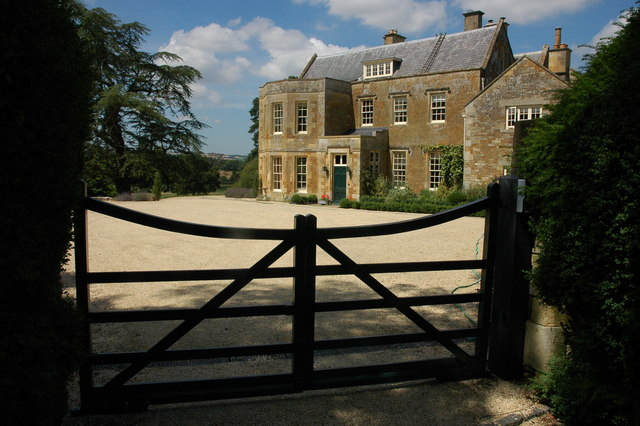 Adlestrop House Adlestrop House is a large impressive Georgian House in a fine setting next to the parish church. The house used to be the Rectory. Jane Austin visited on three occasions in 1794,1799 and 1806 and stayed with her uncle who was the Church Rector.